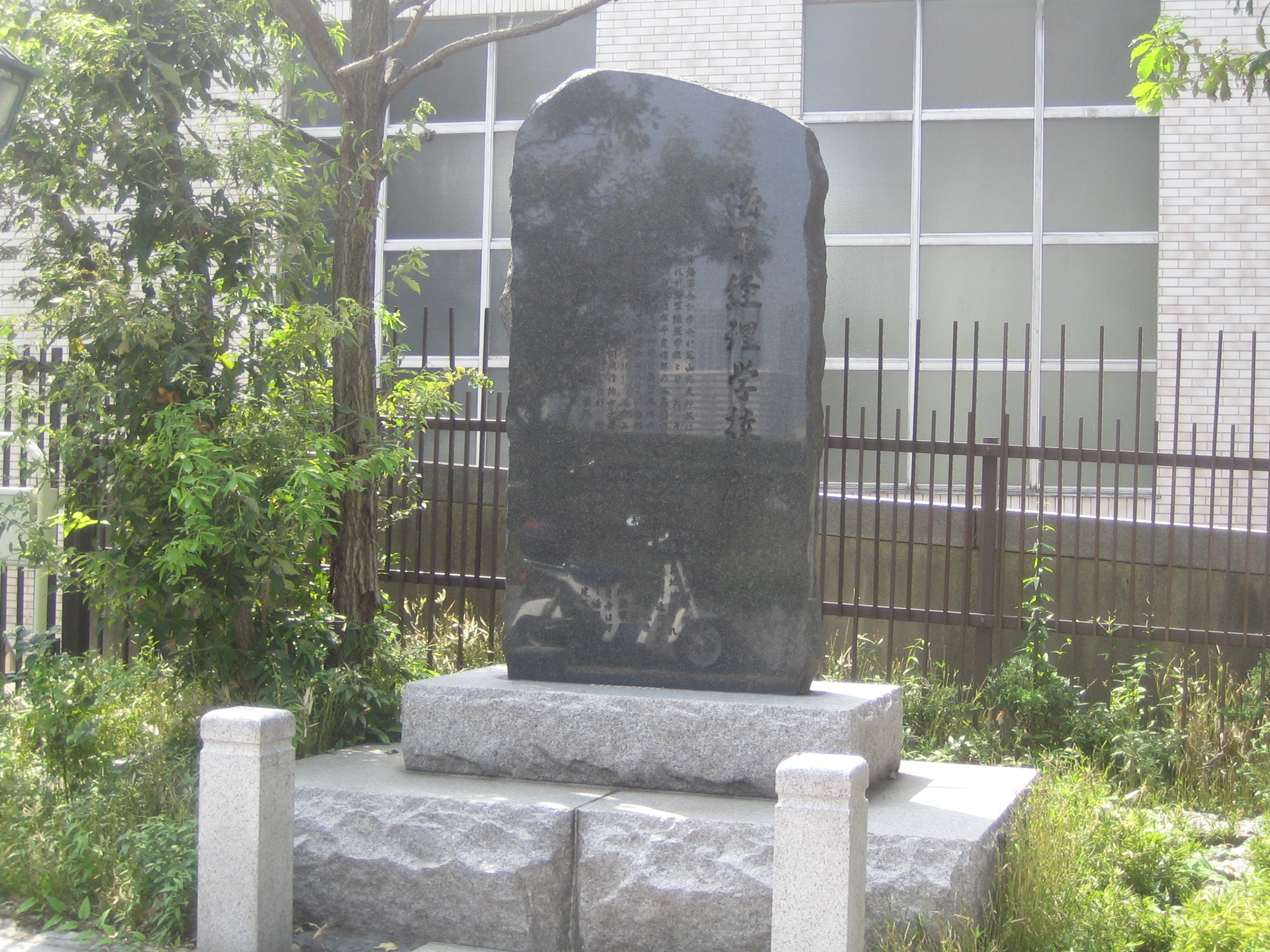 海軍経理学校の碑。東京都中央区築地 Monument of the Naval Paymasters' College (海軍経理学校 Kaigun Keiri Gakkō), at Tsukiji, Chuo, Tokyo, Japan